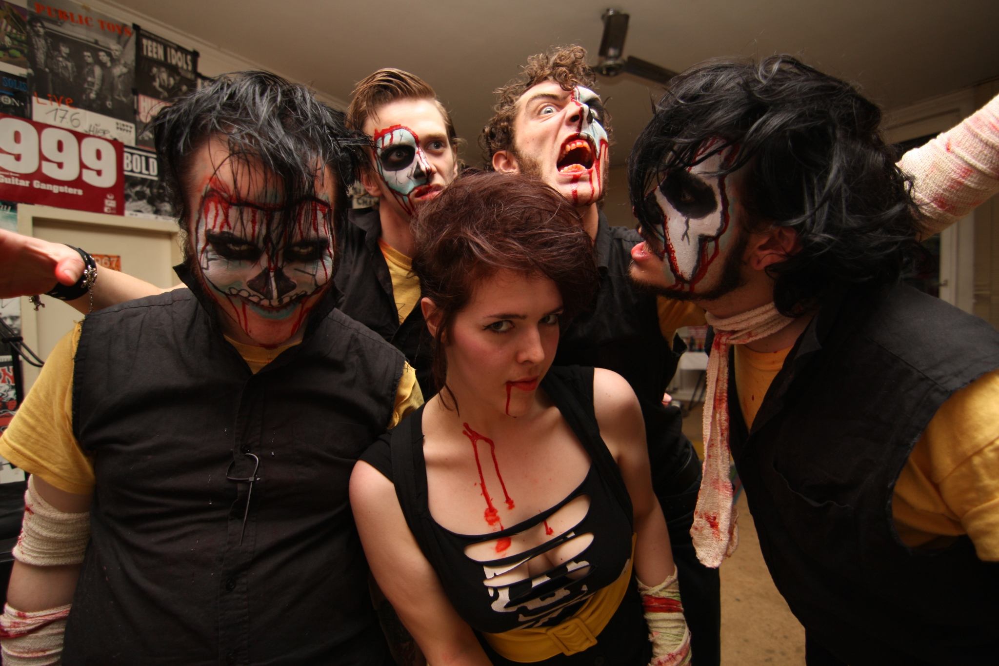 Zombina and the boys right before the show at Zwischenfall in Bochum, Germany